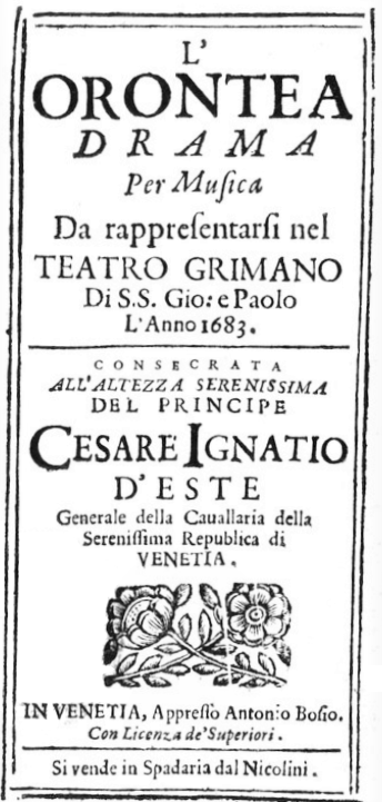 Title page of the libretto for Antonio Cesti's opera Orontea. This libretto was printed for the production at the Teatro Santi Giovanni e Paolo in Venice in 1683